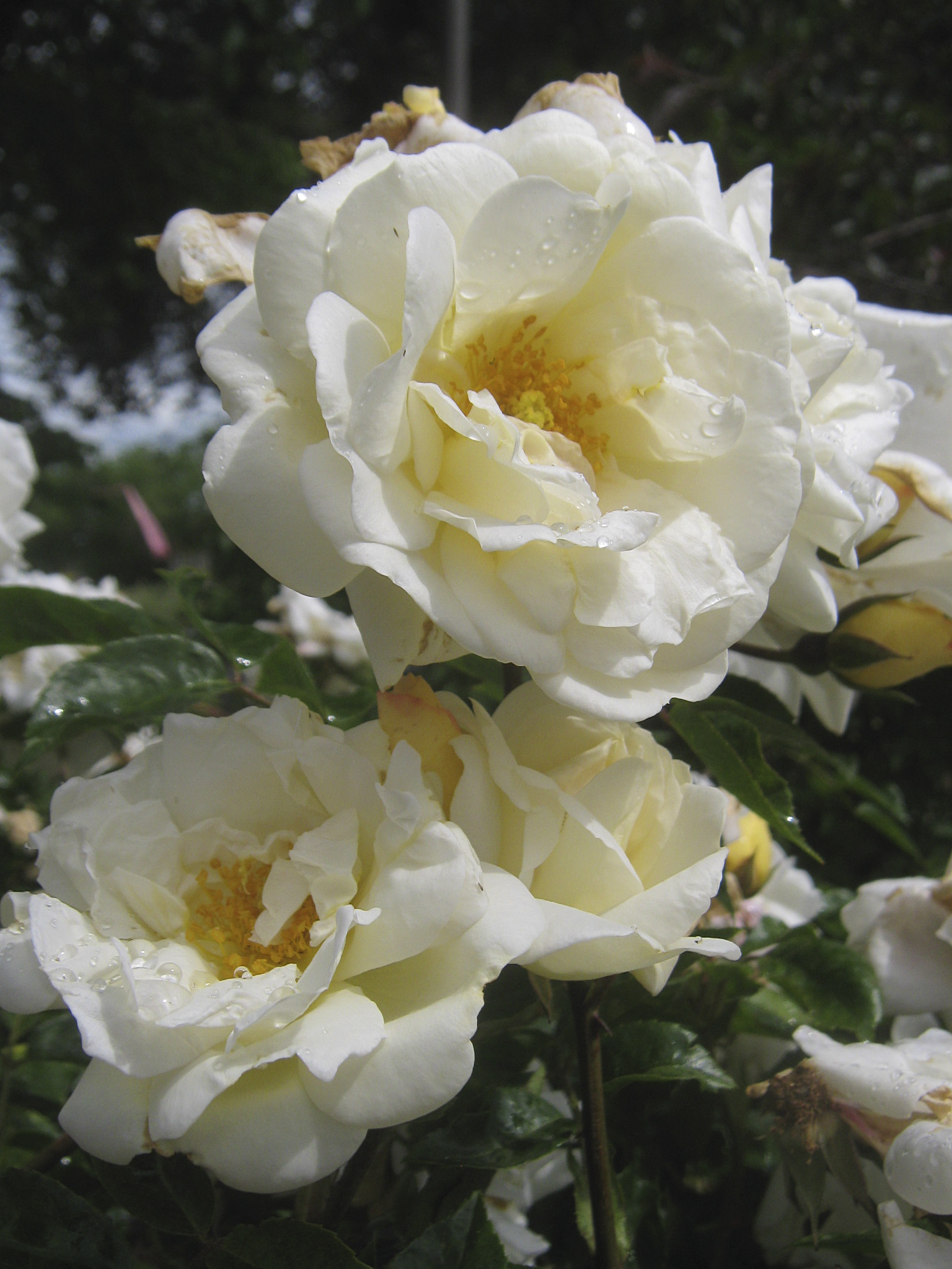 Rosa 'Milkmaid', Noisette by Alister Clark 1925; Photographed in the Alister Clark Memorial Rose Garden, Bulla, Victoria